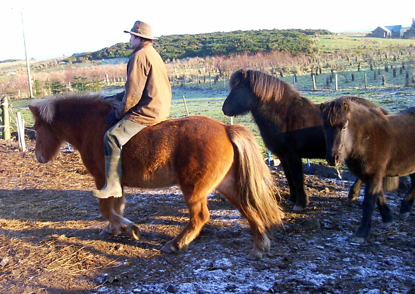 Icelandic horses